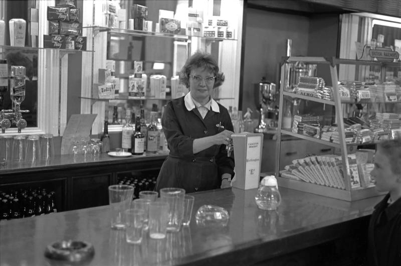 Grantham Station Refreshment Room 1968